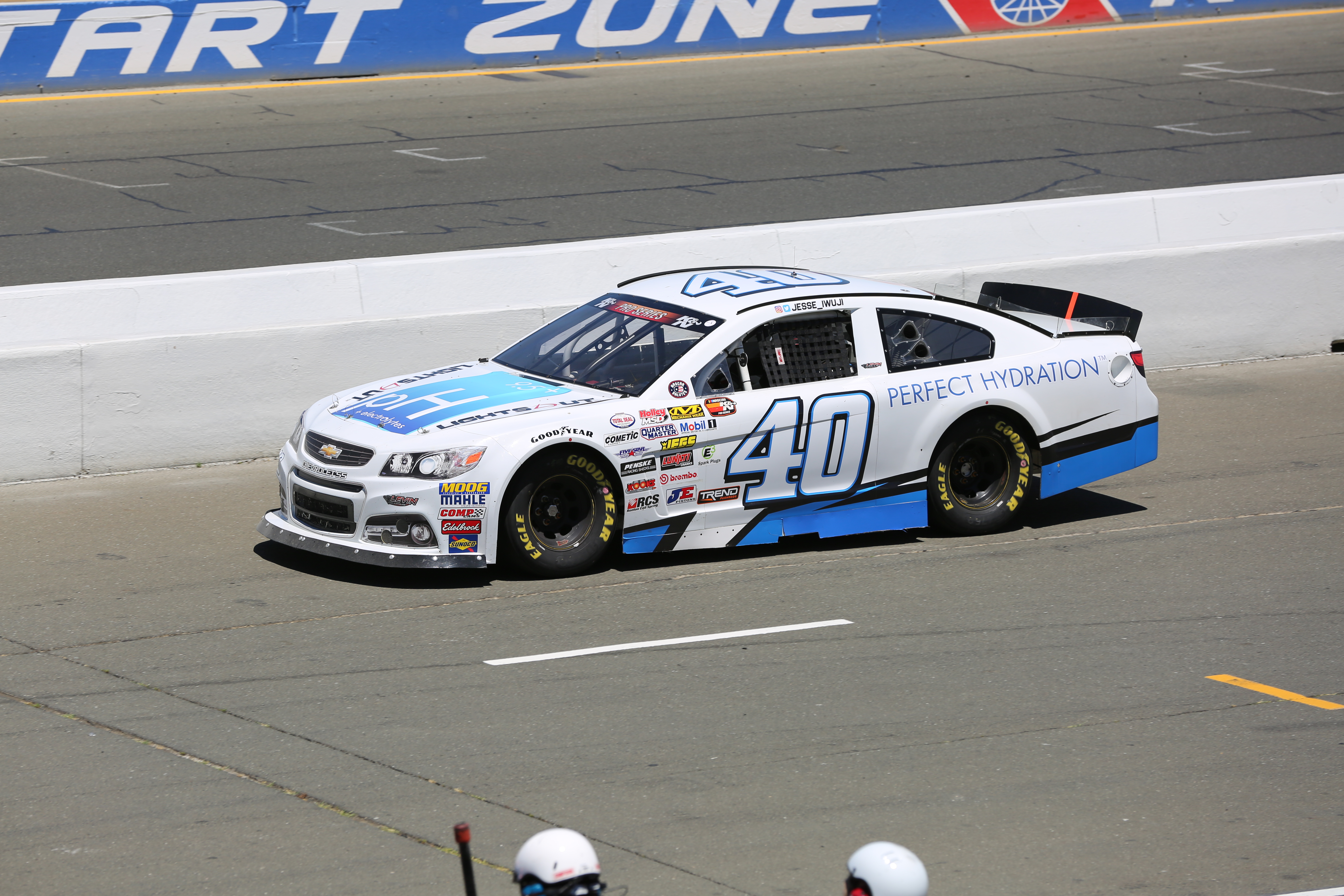 Jesse Iwuji's No. 40 Perfect Hydration Chevrolet at Sonoma Raceway in 2018